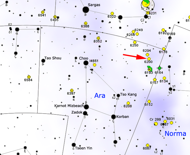 Map of NGC 6200